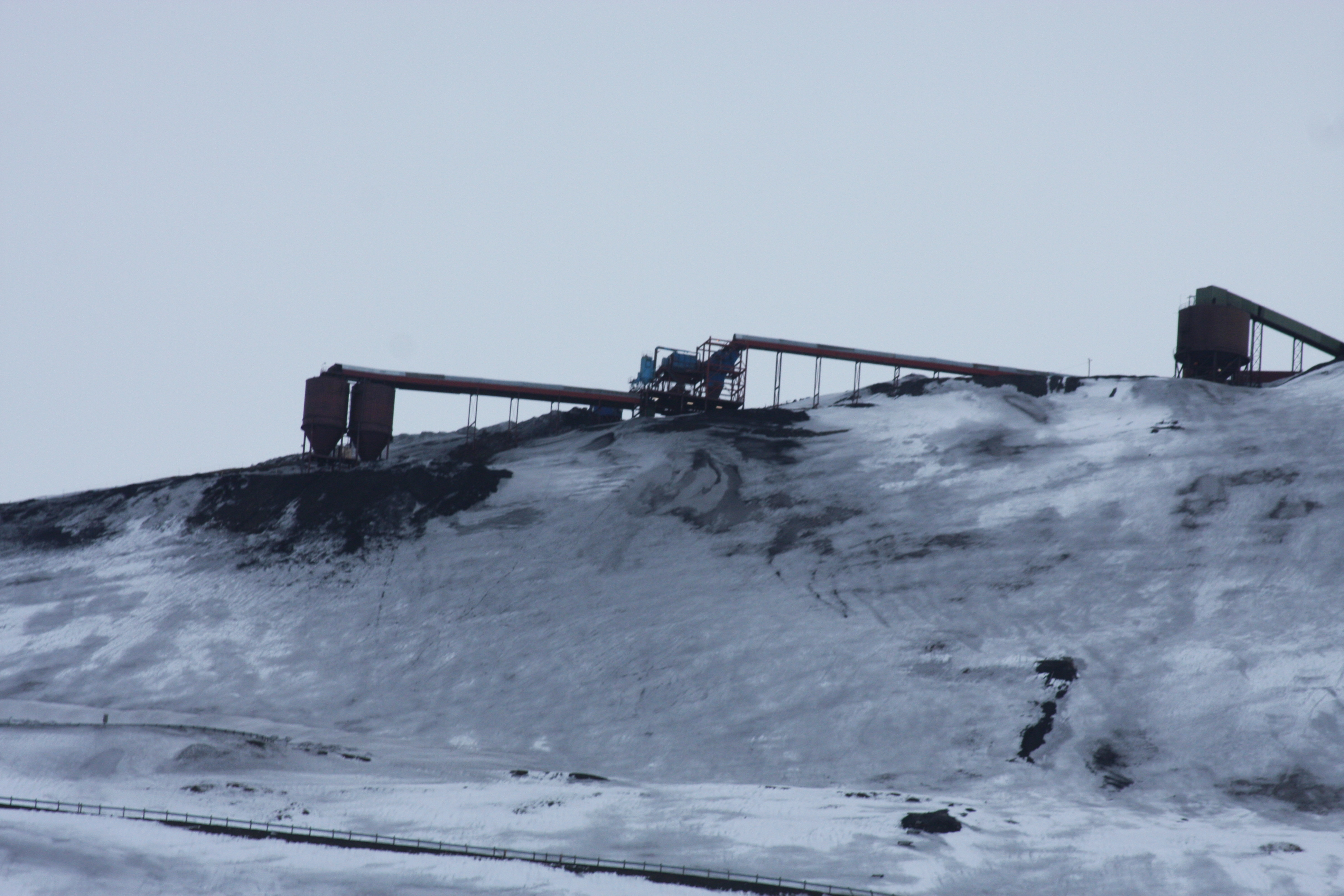 SNSK mine No 7 east of Longyearbyen.